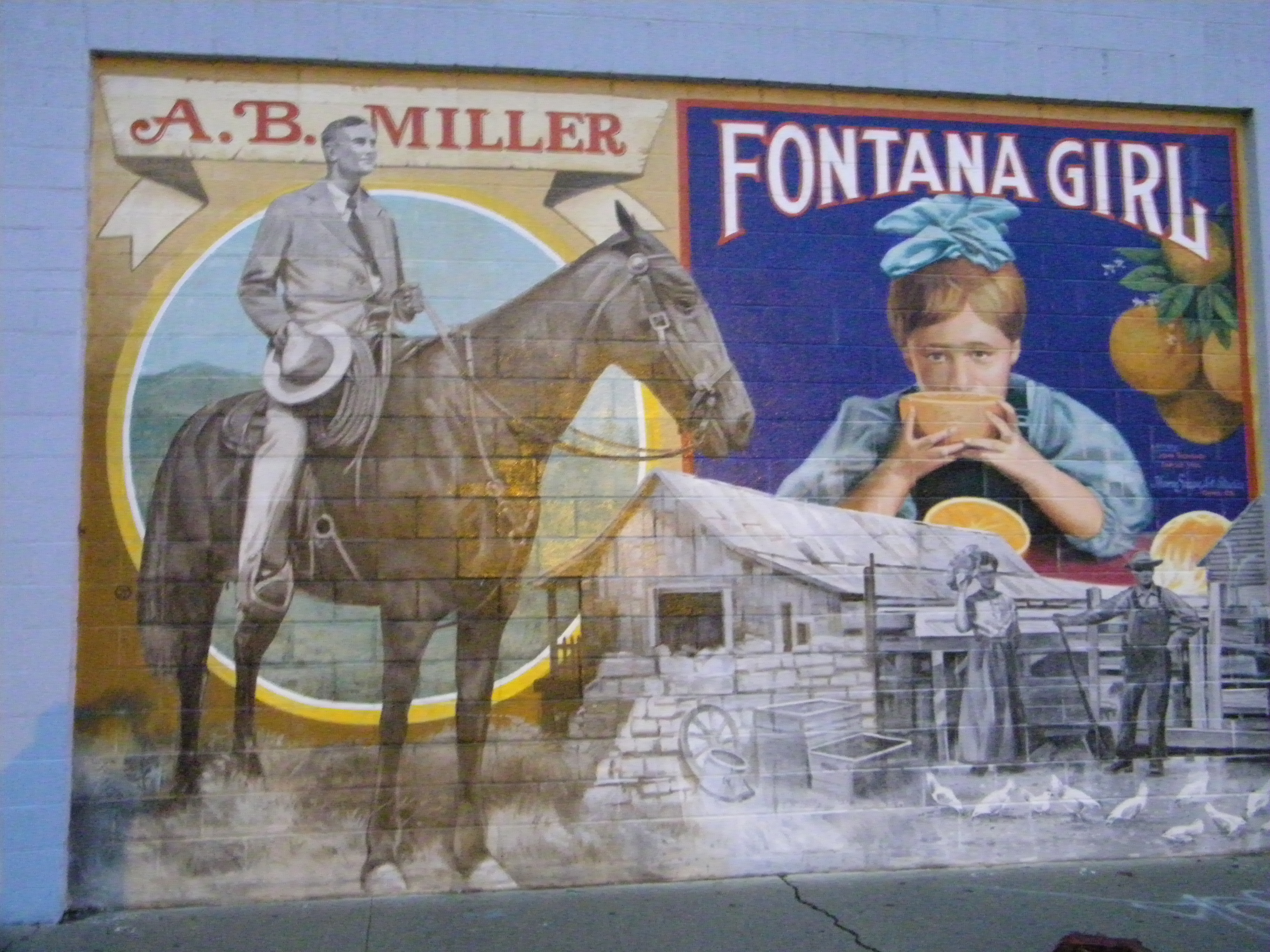 Picture of painted mural, depicting A.B. Miller on horseback and typical orange crate art label in Fontana, Ca.